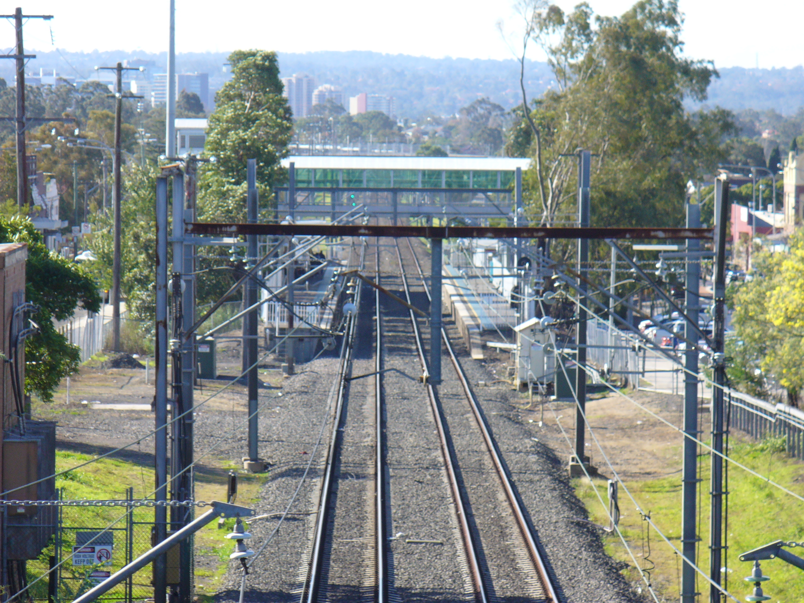 Guildford railway station, Sydney, New South Wales, Australia